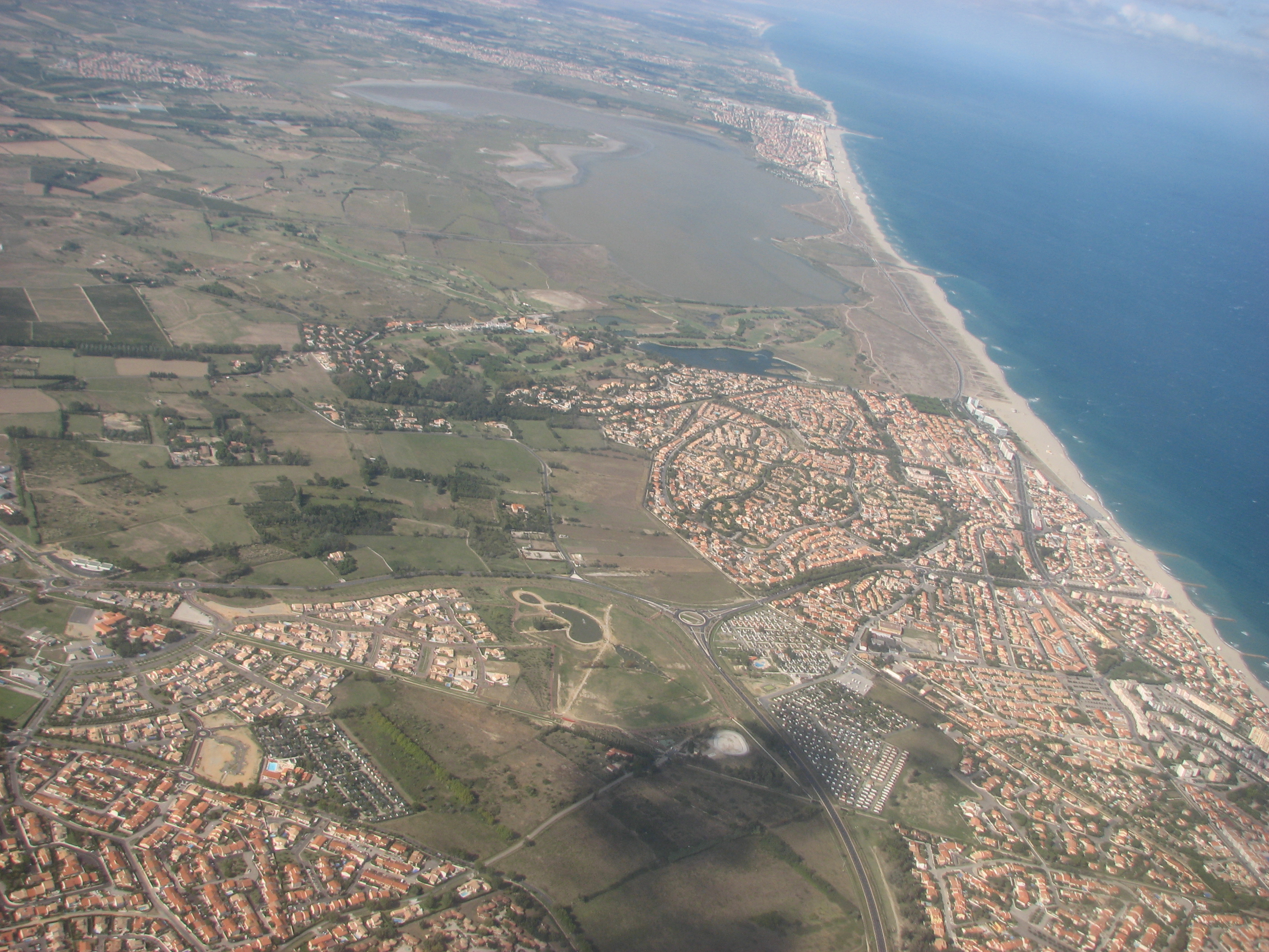 South of France Saint-Cyprien-Plage and Saint-Cyprien